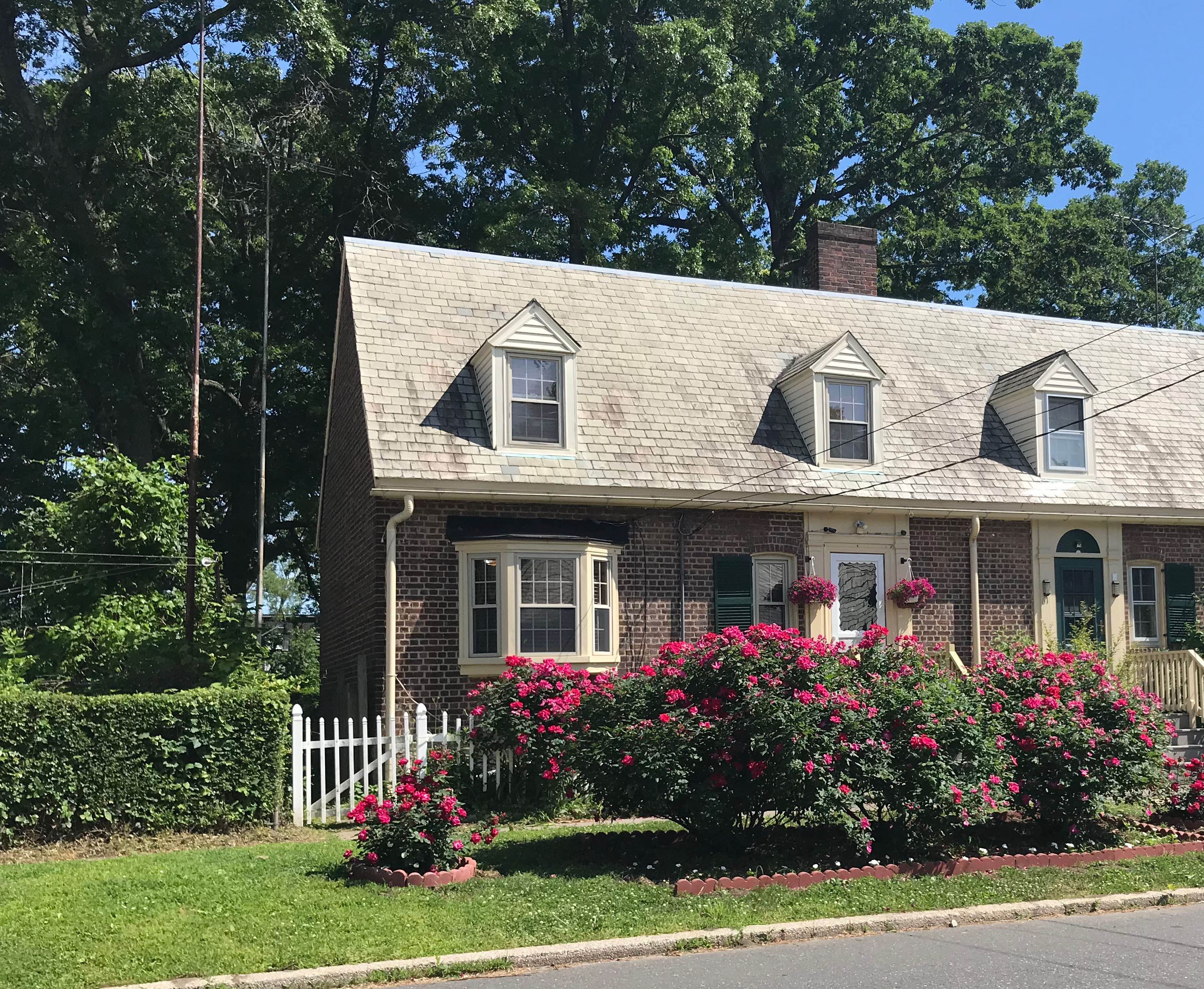 Photo of row houses along Burnham Street